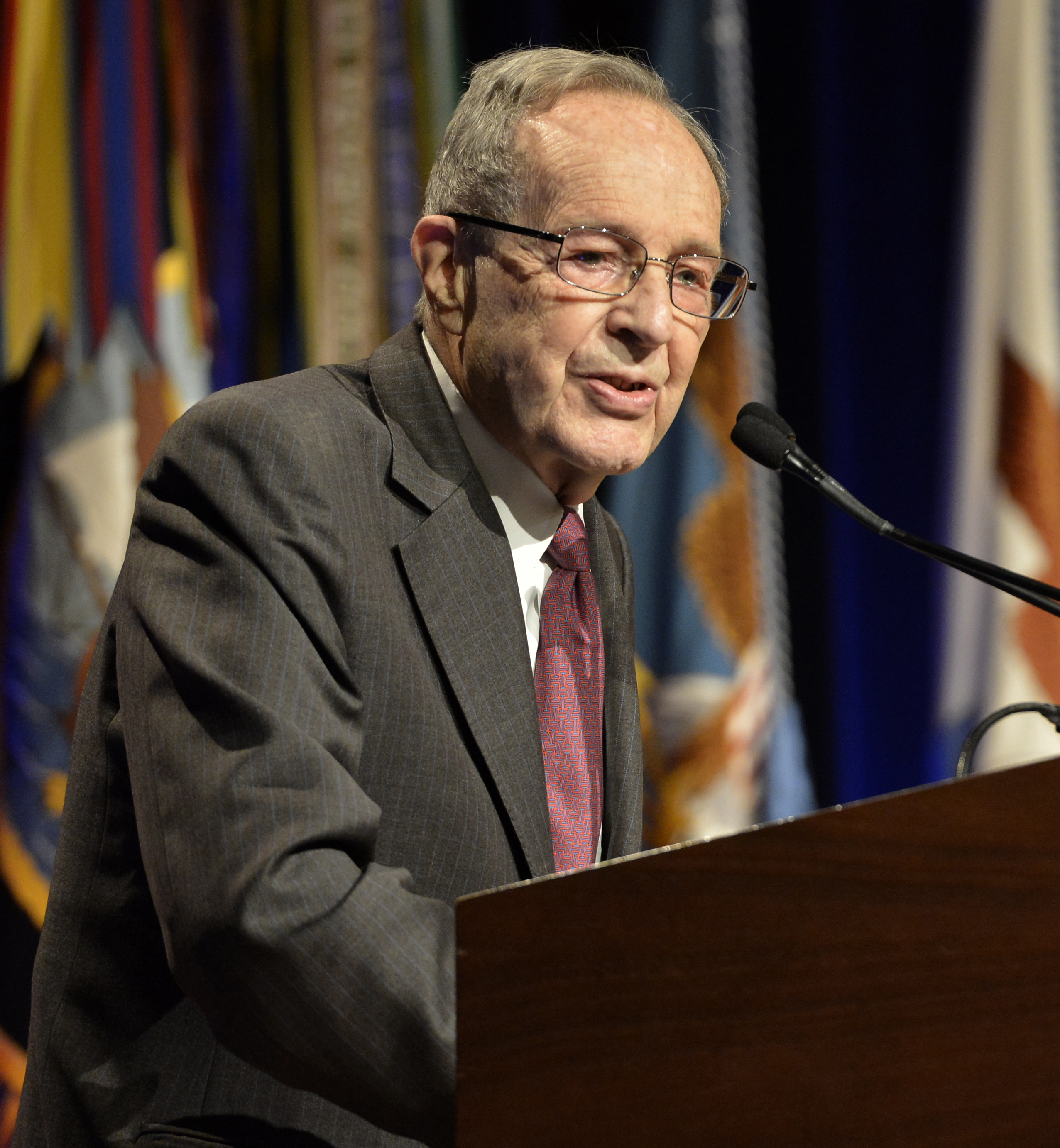 The 19th Secretary of Defense Dr. William Perry delivers remarks shortly before 25th Secretary of Defense Ash Carter is sworn in during a ceremony in the Pentagon Auditorium, March 6, 2015. DoD photo by Glenn Fawcett (Released)